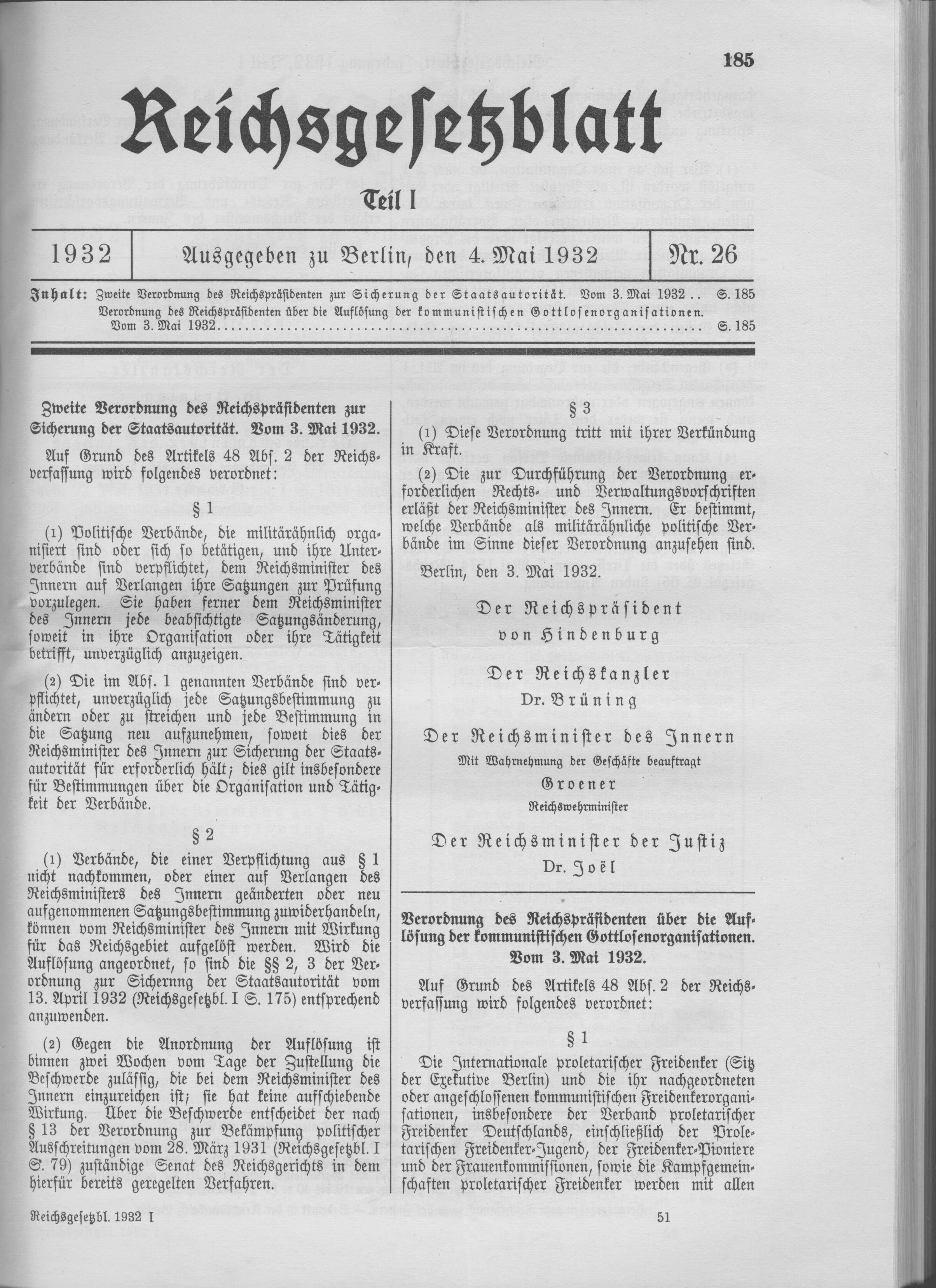 Scan from the Imperial Law Gazette of Germany, 1932, part 1